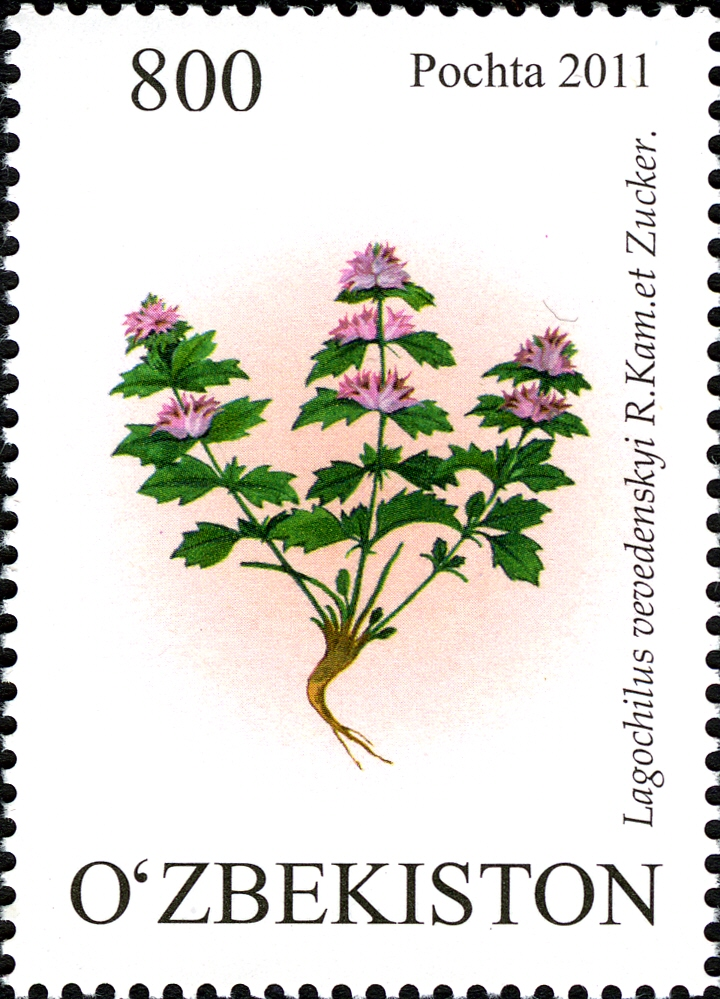 Stamps of Uzbekistan, 2011